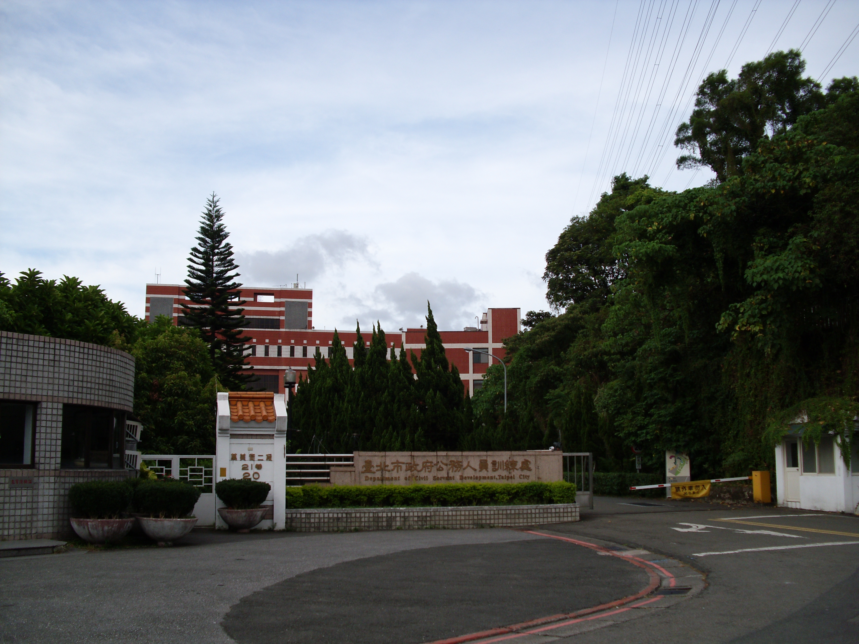 Department of Civil Servant Development, Taipei City Government